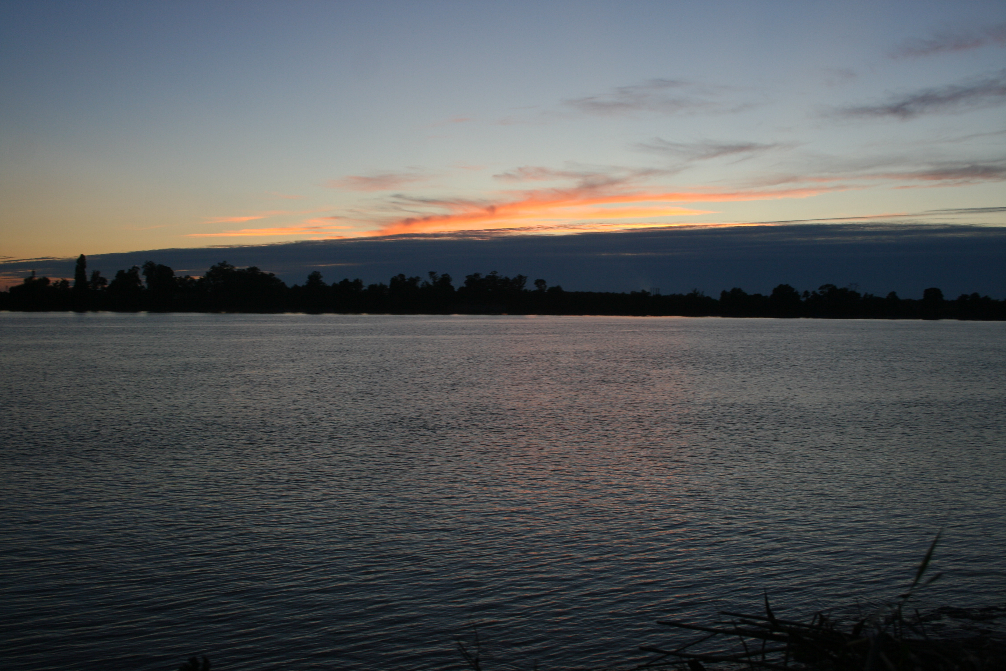 The river Dordogne seen from Cubzac.